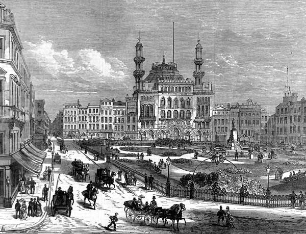 Leicester Square, London in 1874, looking east. The Alhambra Theatre dominated the square at this time. Wood-engraving from the Illustrated London News.